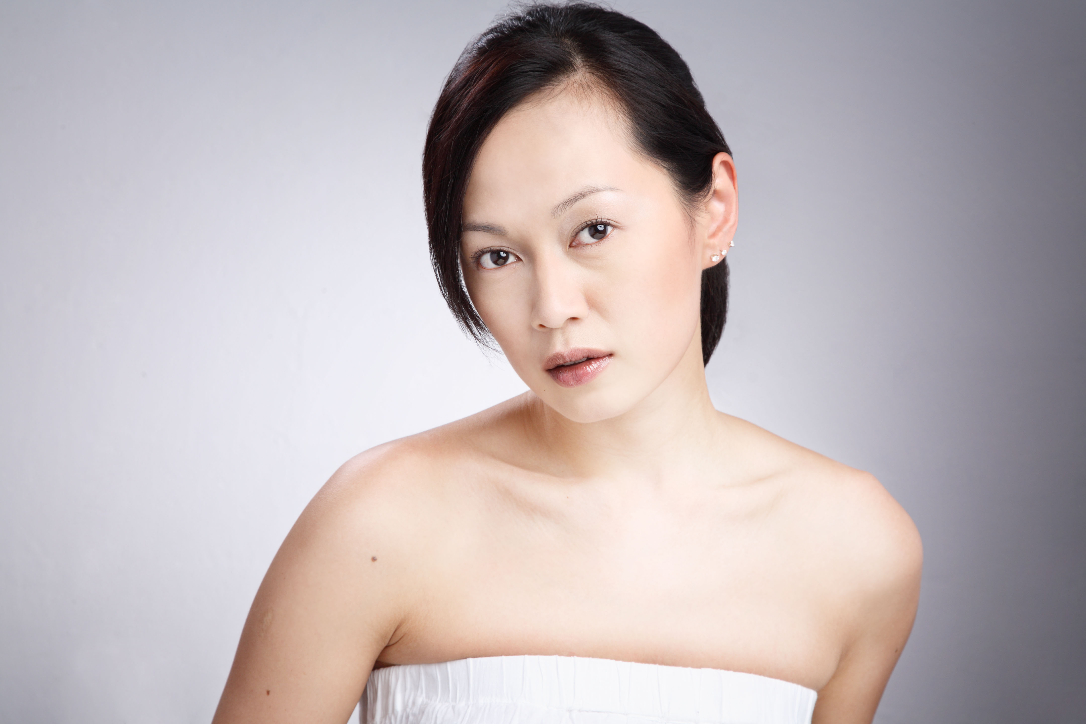 shot in singpapore.